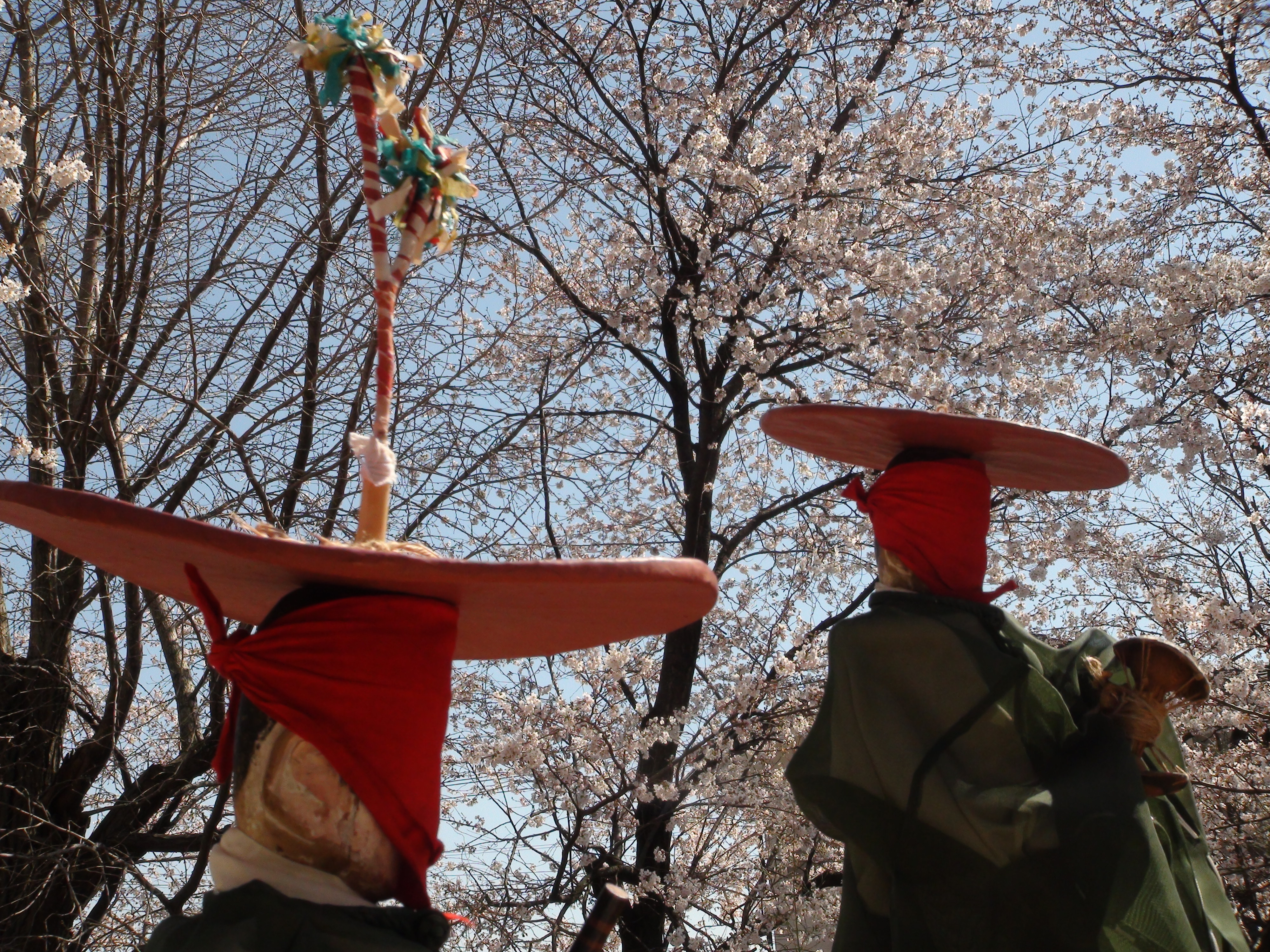 Red cloth, hide their faces, Tenzushi-dolls